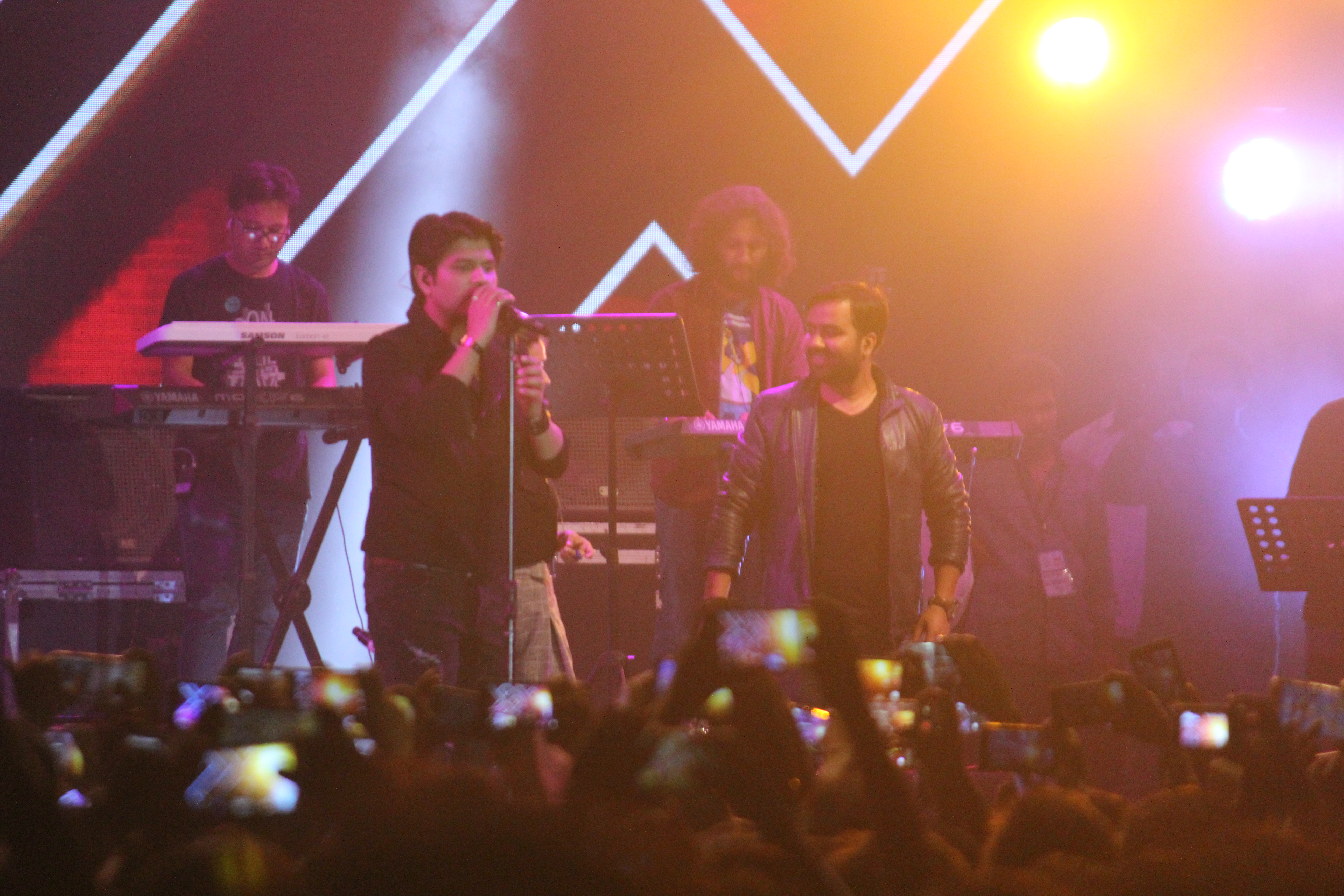 Ankit Tiwari at Shiznay 2k17